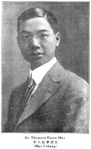 Mao Yisheng (1896－1989). Dr. Mao Yisheng was a Chinese structural engineer, an expert on bridge construction, and a social activist in China. His former residence is a protected Hang Zhou Historic House — in the city of Hangzhou, Eastern China.